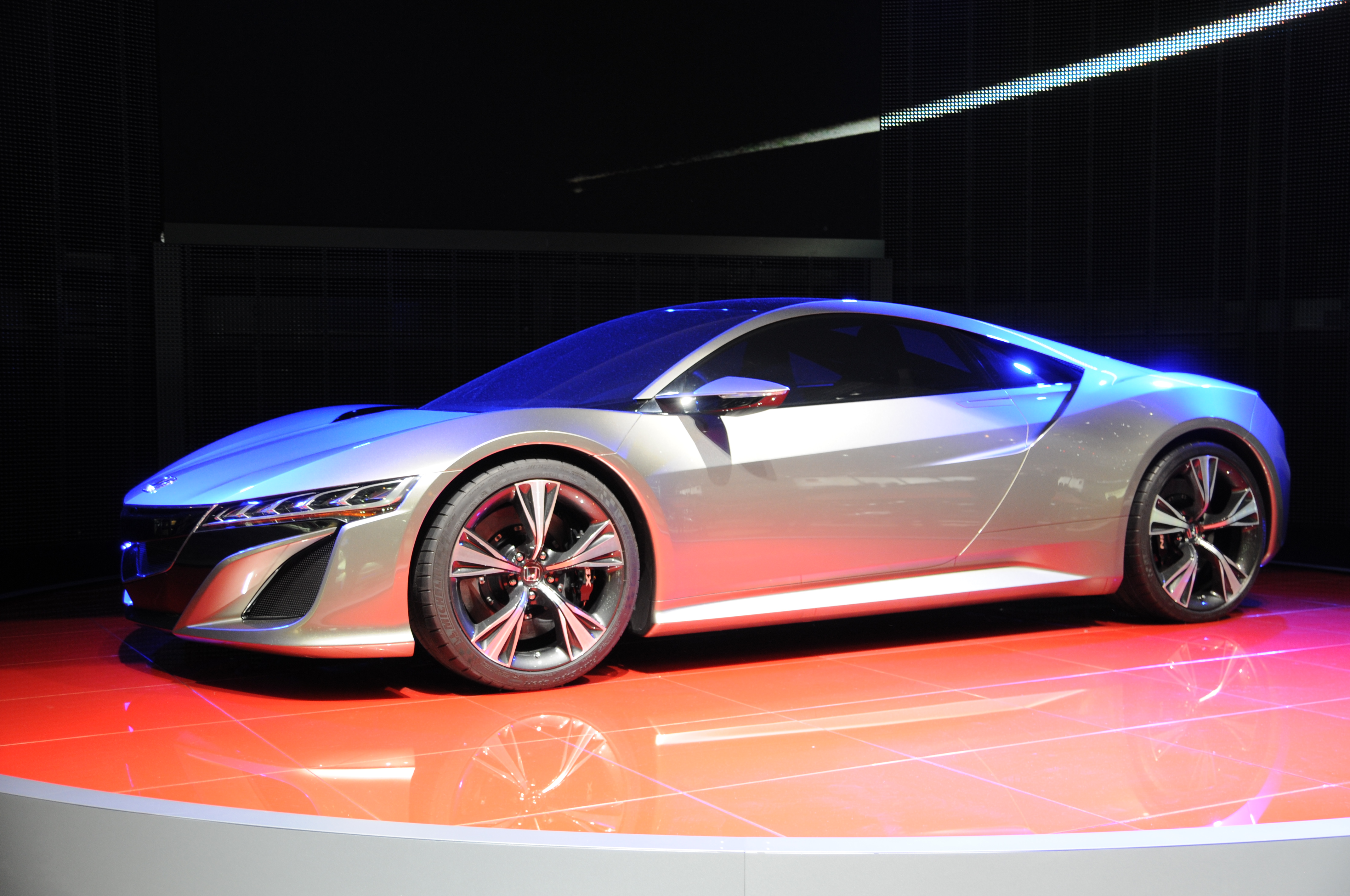 Geneva Motor Show 2012 (photos taken on the second press day)